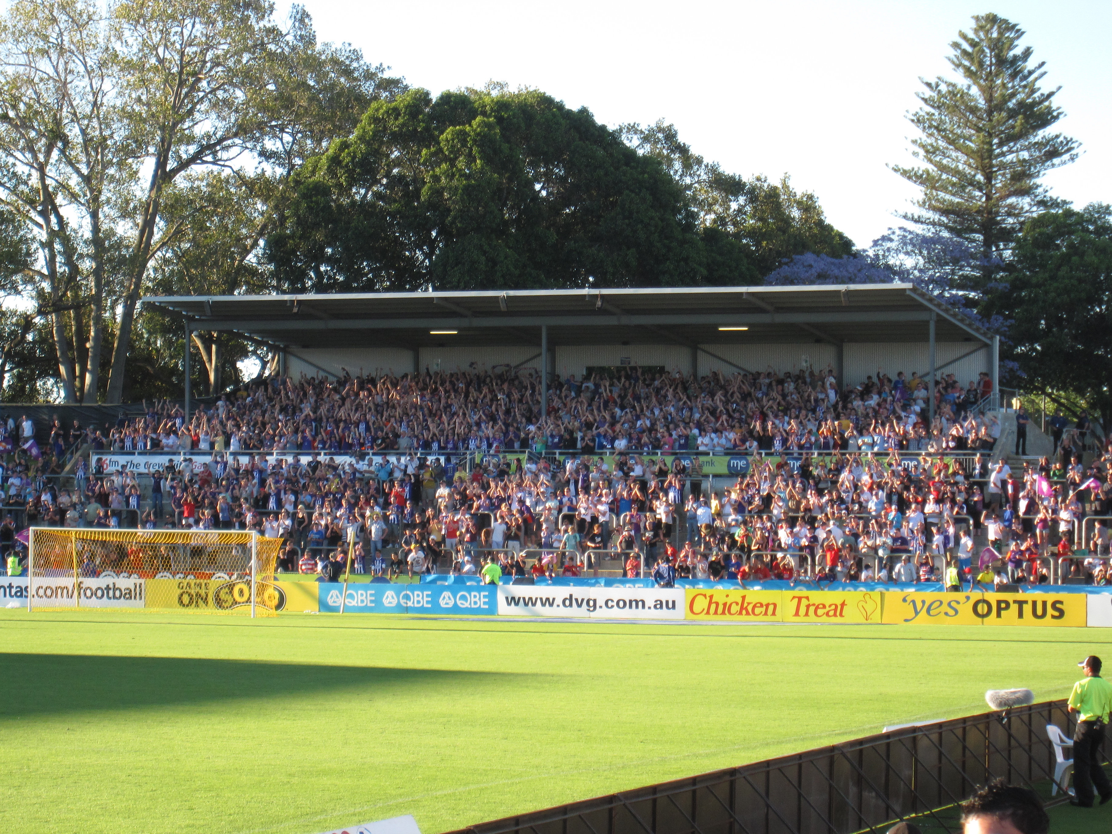 "The Shed" at ME Bank Stadium